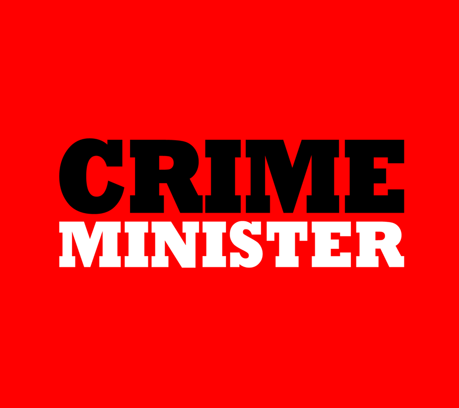 Crime Minister logo.